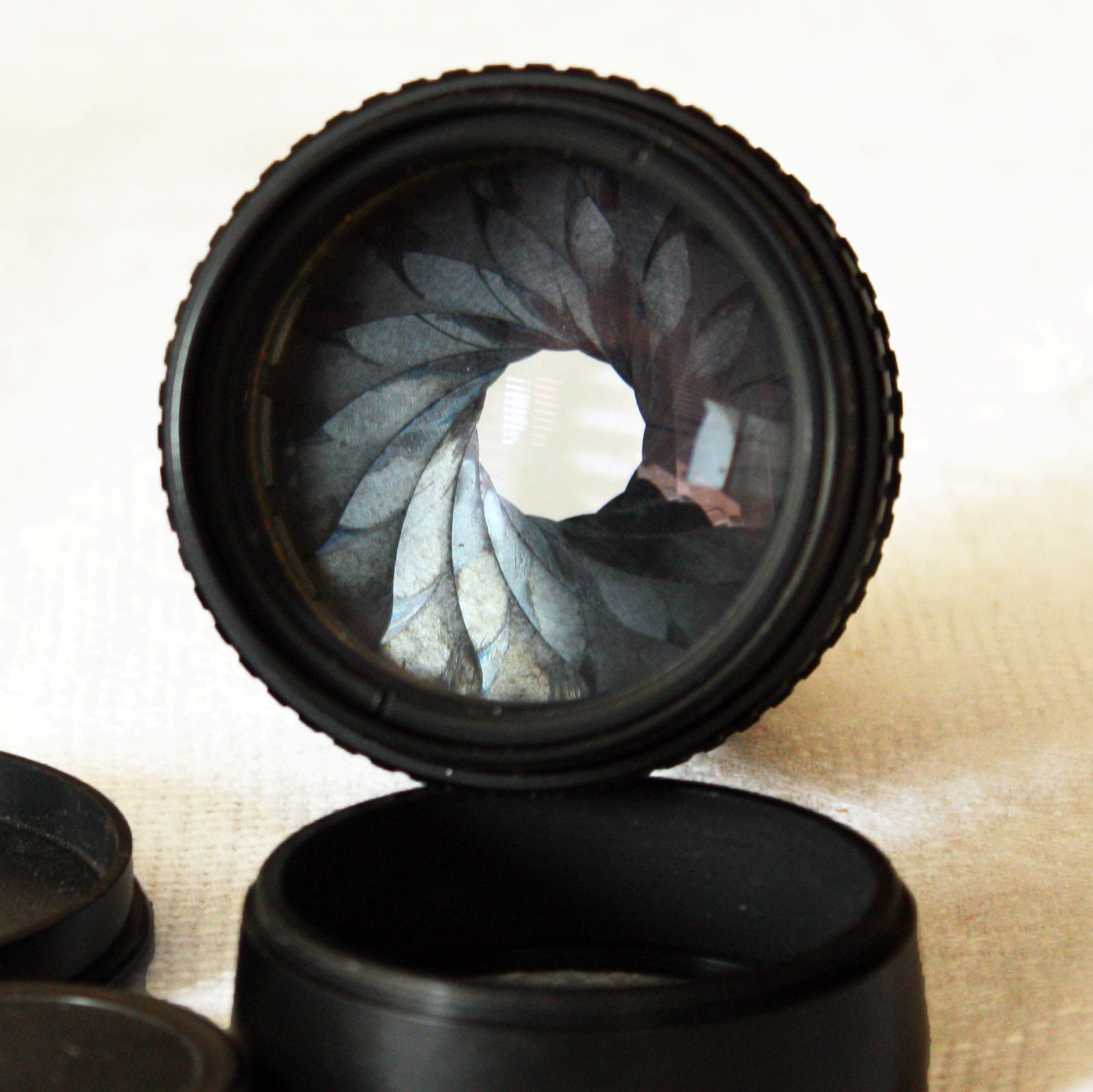 Pentacon 2.8/135 lens 15-blades diaphragm Диафрагмата на обектива Pentacon 2.8/135